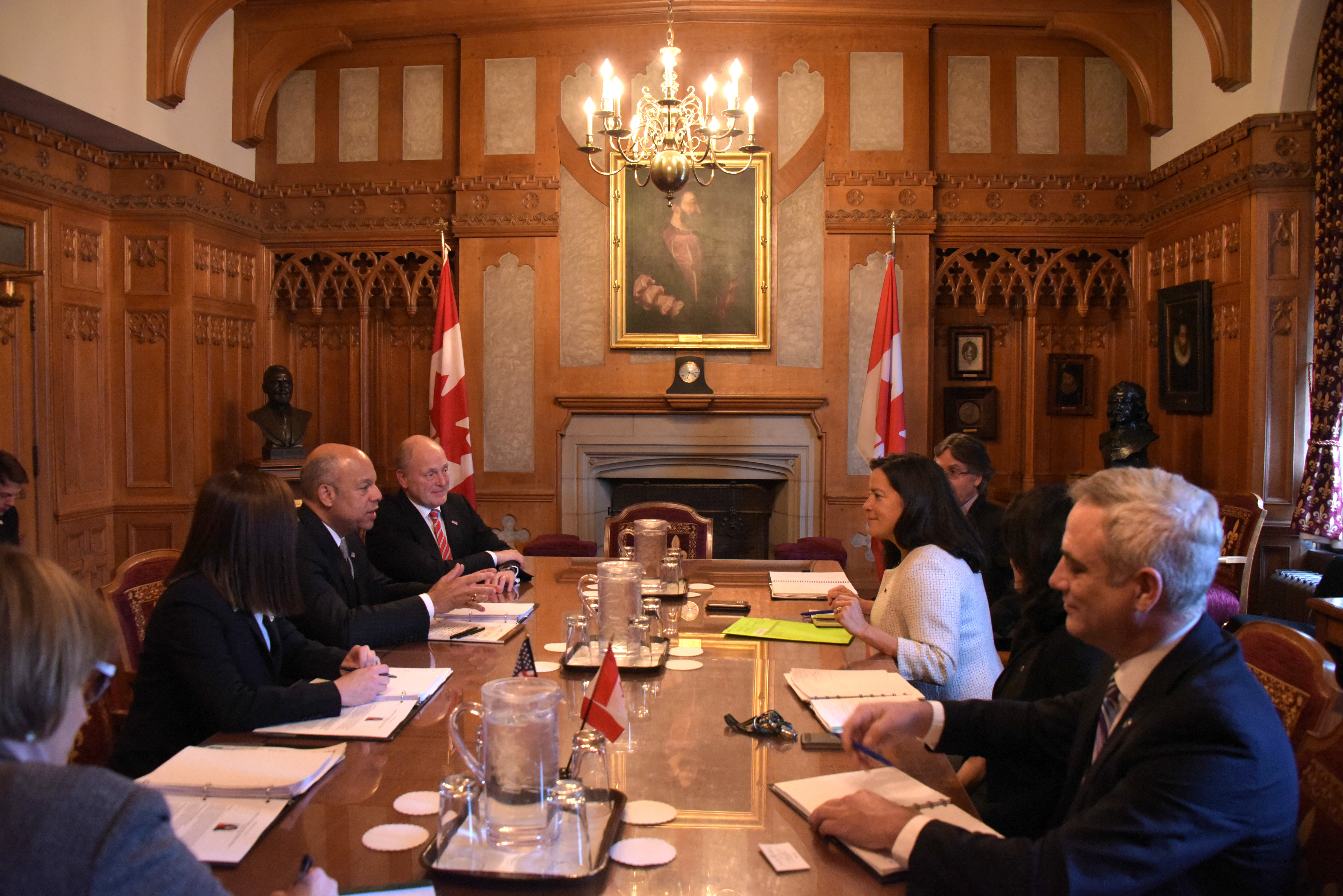 OTTAWA, Canada — Secretary of Homeland Security Jeh Johnson traveled to Canada, where he participated in bilateral meetings with key counterparts, Oct. 27, 2016. Discussions focused on continued cooperation on priority issues for both governments, including efforts to enhance perimeter security and economic competitiveness. Secretary Johnson met with Minister of Public Safety Ralph Goodale; Minister of Refugees and Citizenship John McCallum; Minister of Justice Jody Wilson-Raybould; and Minister of Transport Marc Garneau. U.S. Ambassador to Canada Bruce Heyman accompanied Secretary Johnson.